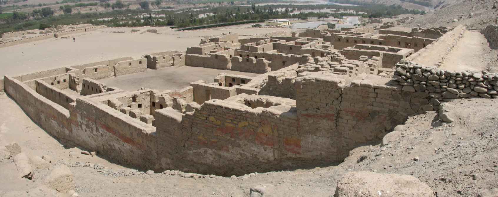 Tambo Colorado: coloured walls.